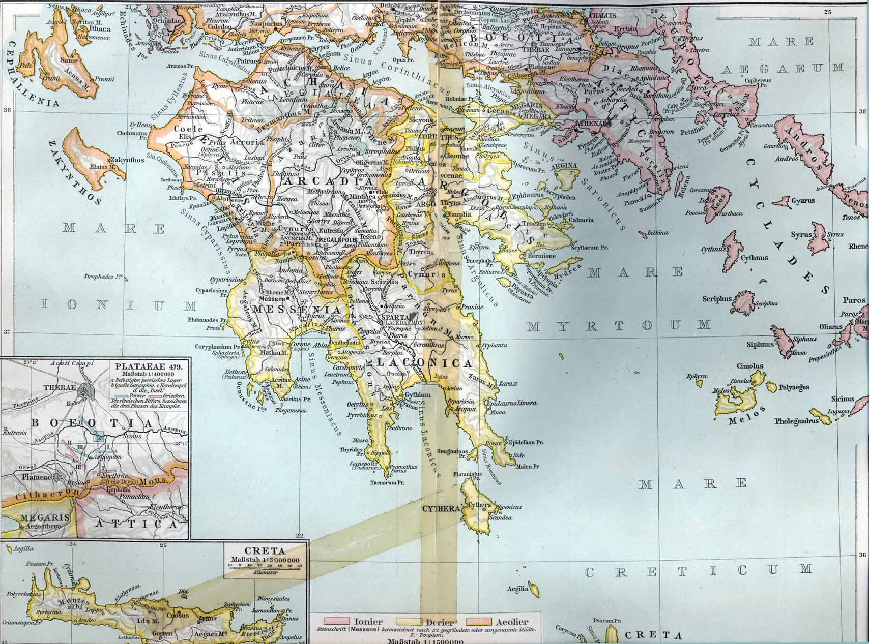 Map of the ancient Peloponnese, Greece